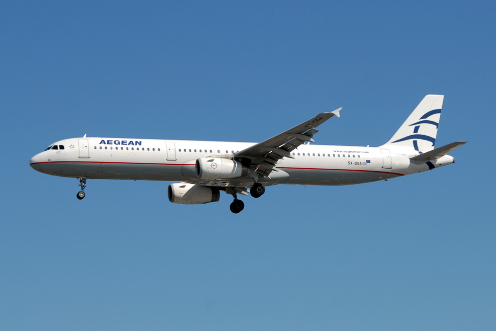 SX-DGA Airbus A321-232 msn 3878 operated by Aegean Airlines and seen on short finals for 27R at London Heathrow (LHR/EGLL).